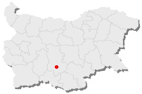 Map of Bulgaria, the red point is the position of Asenovgrad.